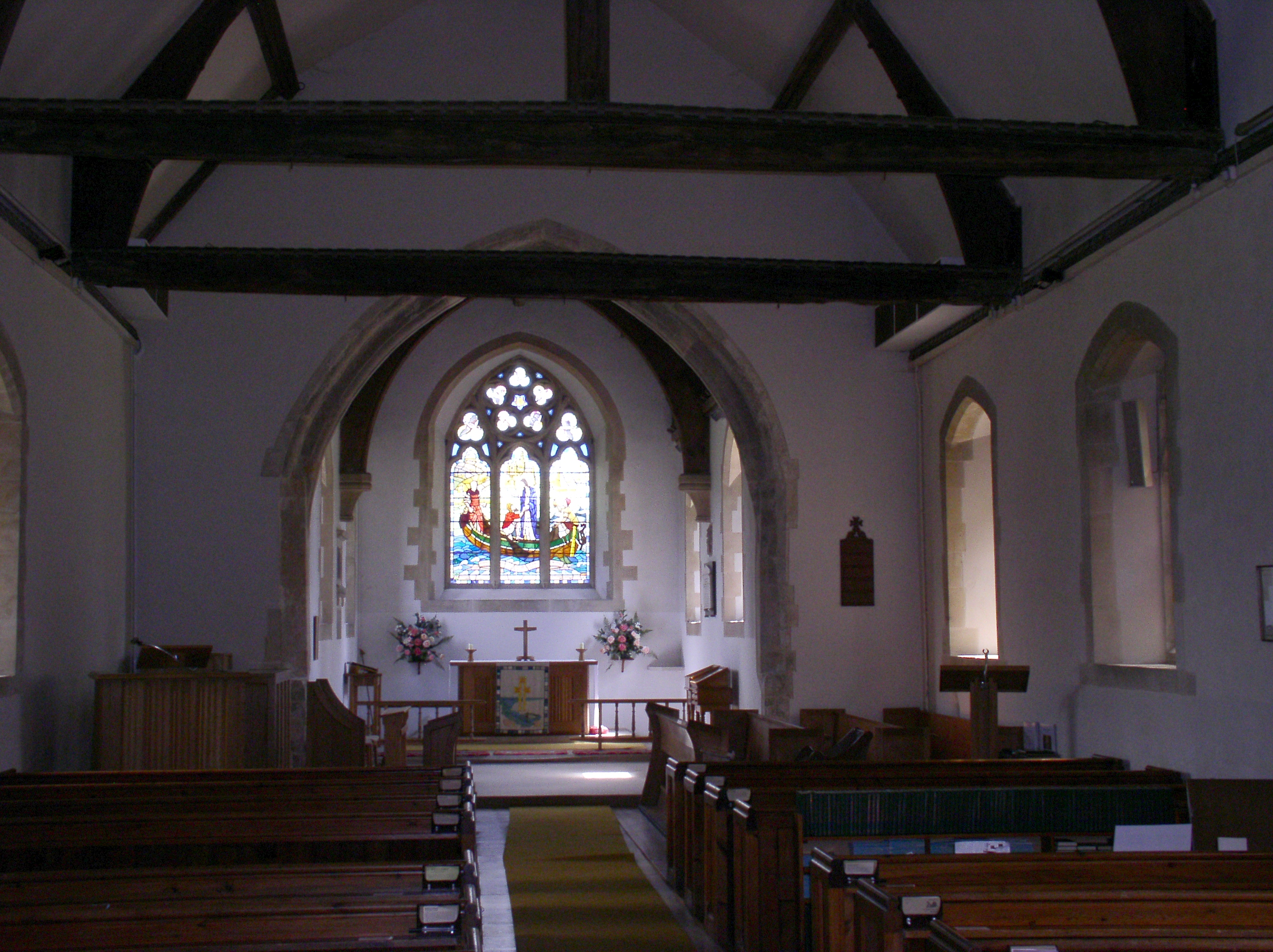 The nave of St James' Church, Birdham looking east.